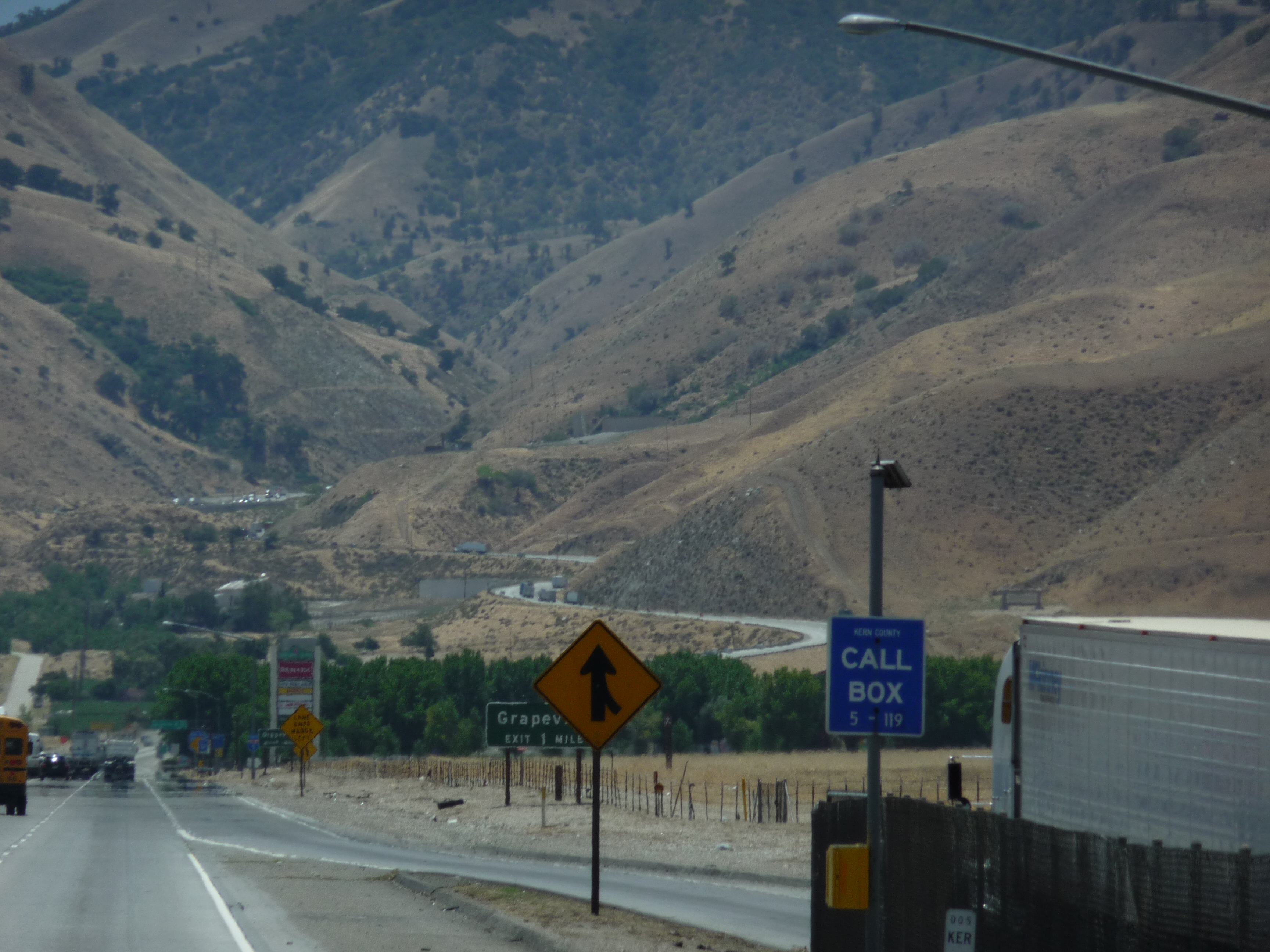 View of Grapevine (town), and southbound I-5 going up Grapevine Canyon to Tejon Pass, in the Tehachapi Mountains. Located in western Kern County, California.